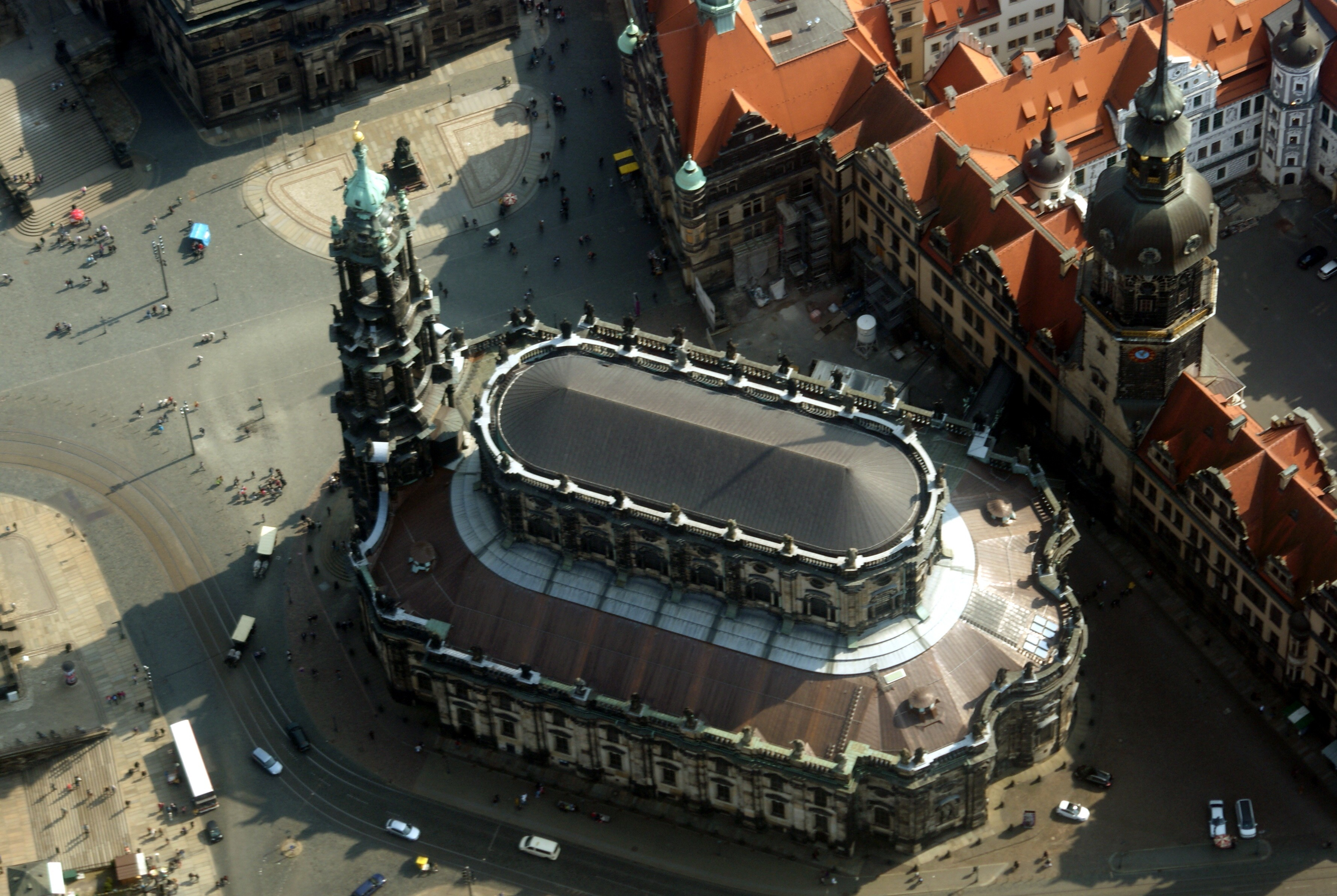 Aerial Image: Dresden Cathedral from Northwest